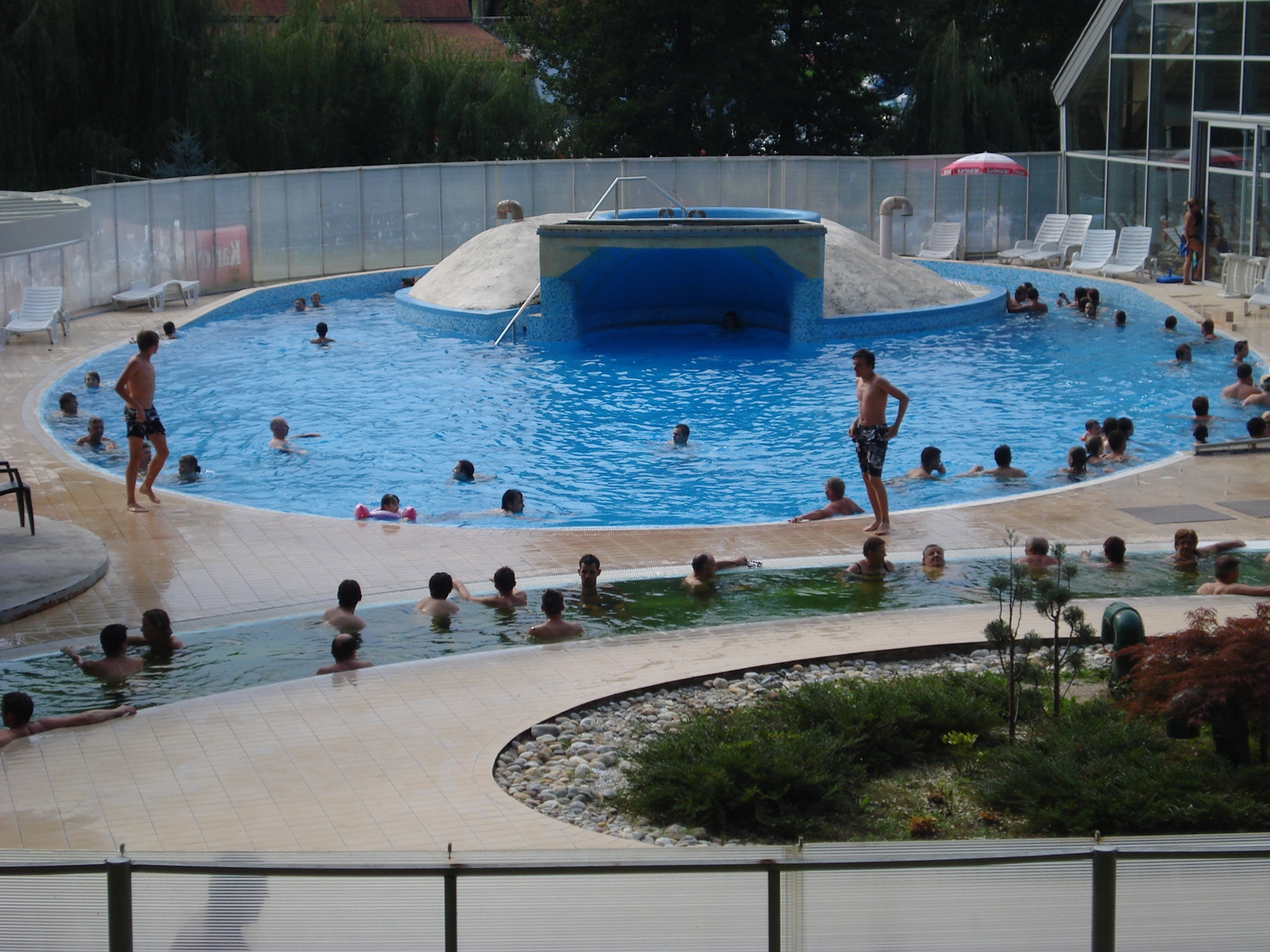 Vučkovec (Croatia) - present-day spa complex (southern part)